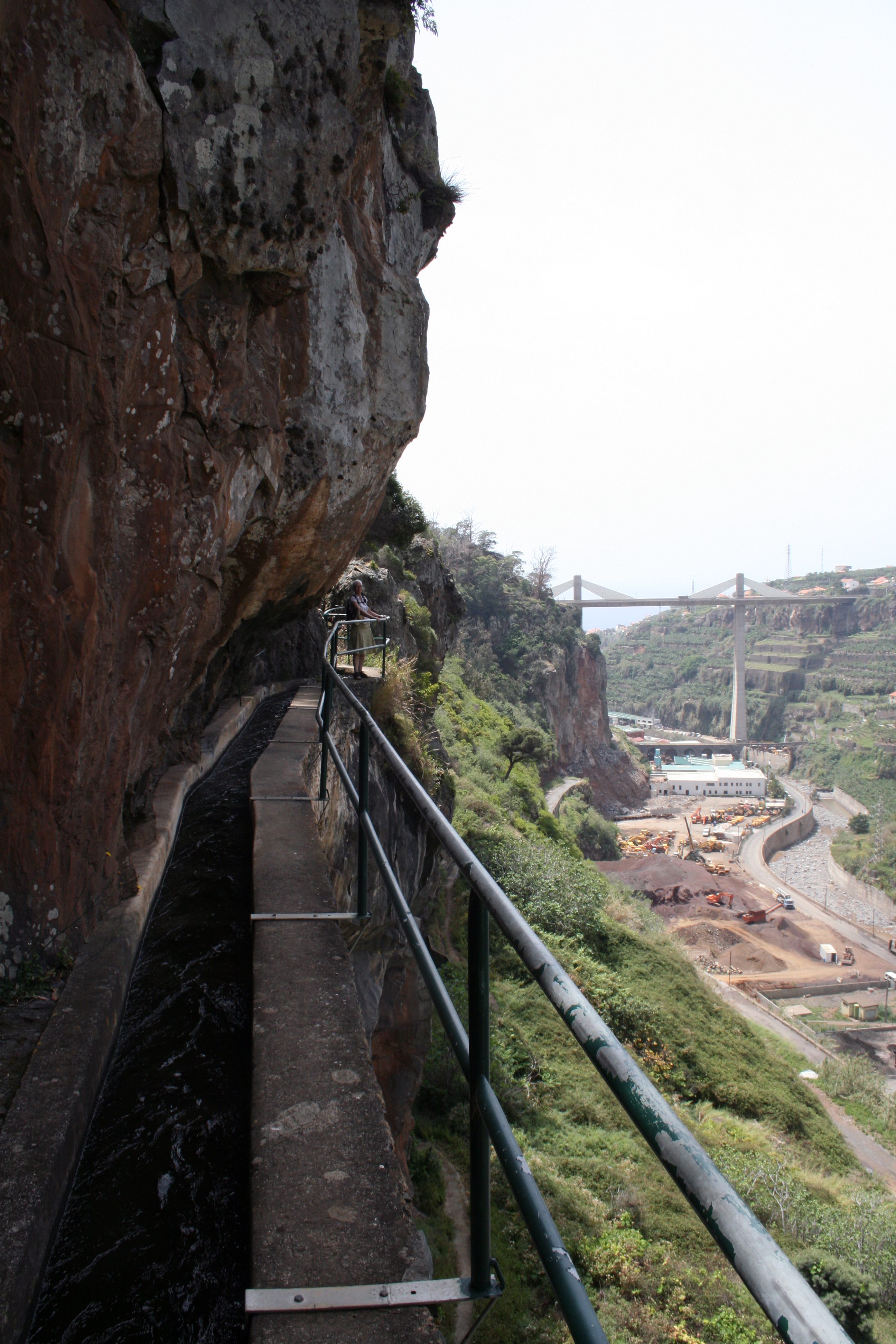 From Levada dos Piornais in the Socorridos Valley, Madeira Norsk (bokmål): Fra Levada dos Piornais i Socorridos-dalen på Madeira